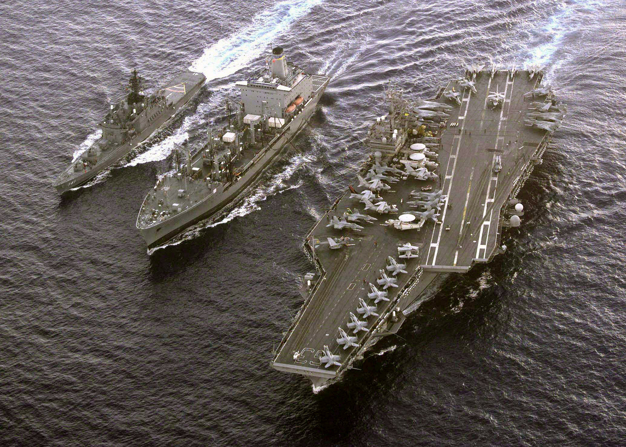 The USNS Tippecanoe (TAO 199) (center) conducts an underway replenishment with the Japanese Maritime Self-Defense Force destroyer Haruna (DD 141) (left) and the aircraft carrier USS Kitty Hawk (CV 63) on Oct. 8, 1998. The Kitty Hawk and her escorts are conducting joint exercises with the Japanese Maritime Self-Defense Force.